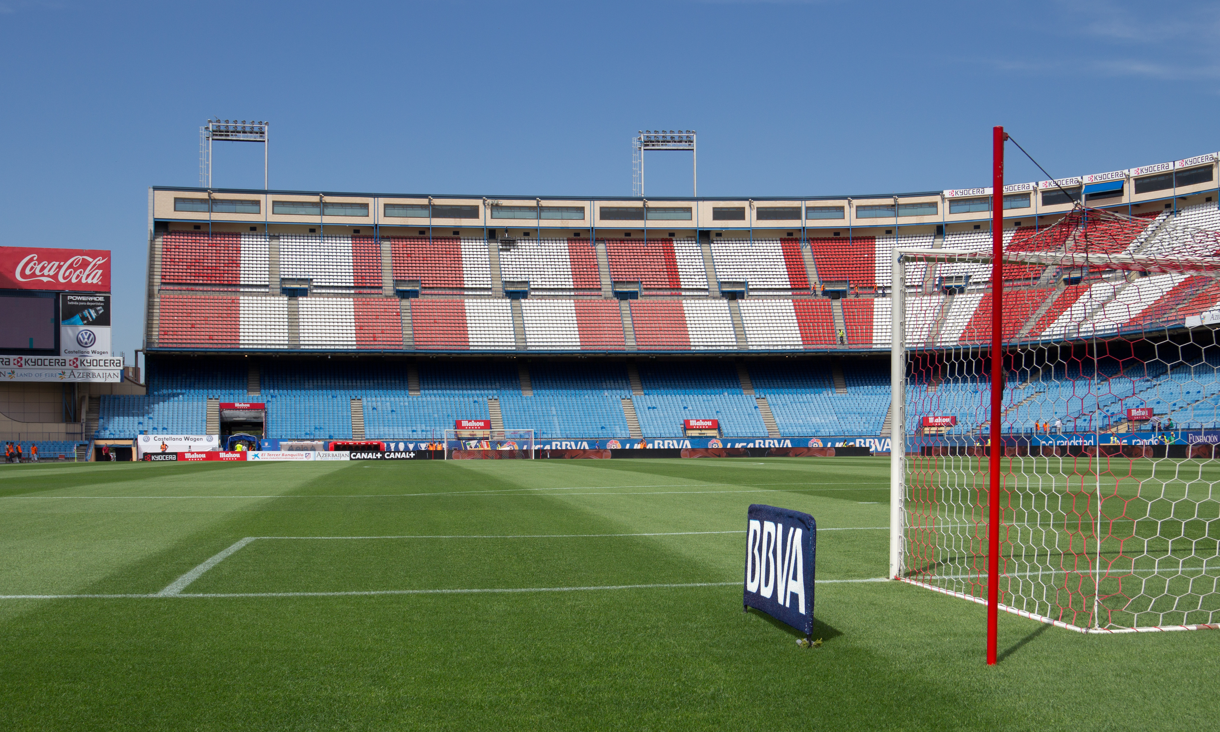 Vicente Calderón Stadium, of Club Atlético de Madrid, in Madrid, Spain.